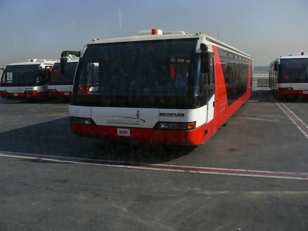 This is a photo showing a bus that brings people from the terminal to the airplane at Dubai International Airport in Dubai, United Arab Emirates on 23 September 2007.